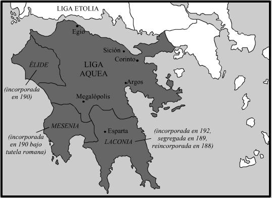 Achaean League 188 BC.